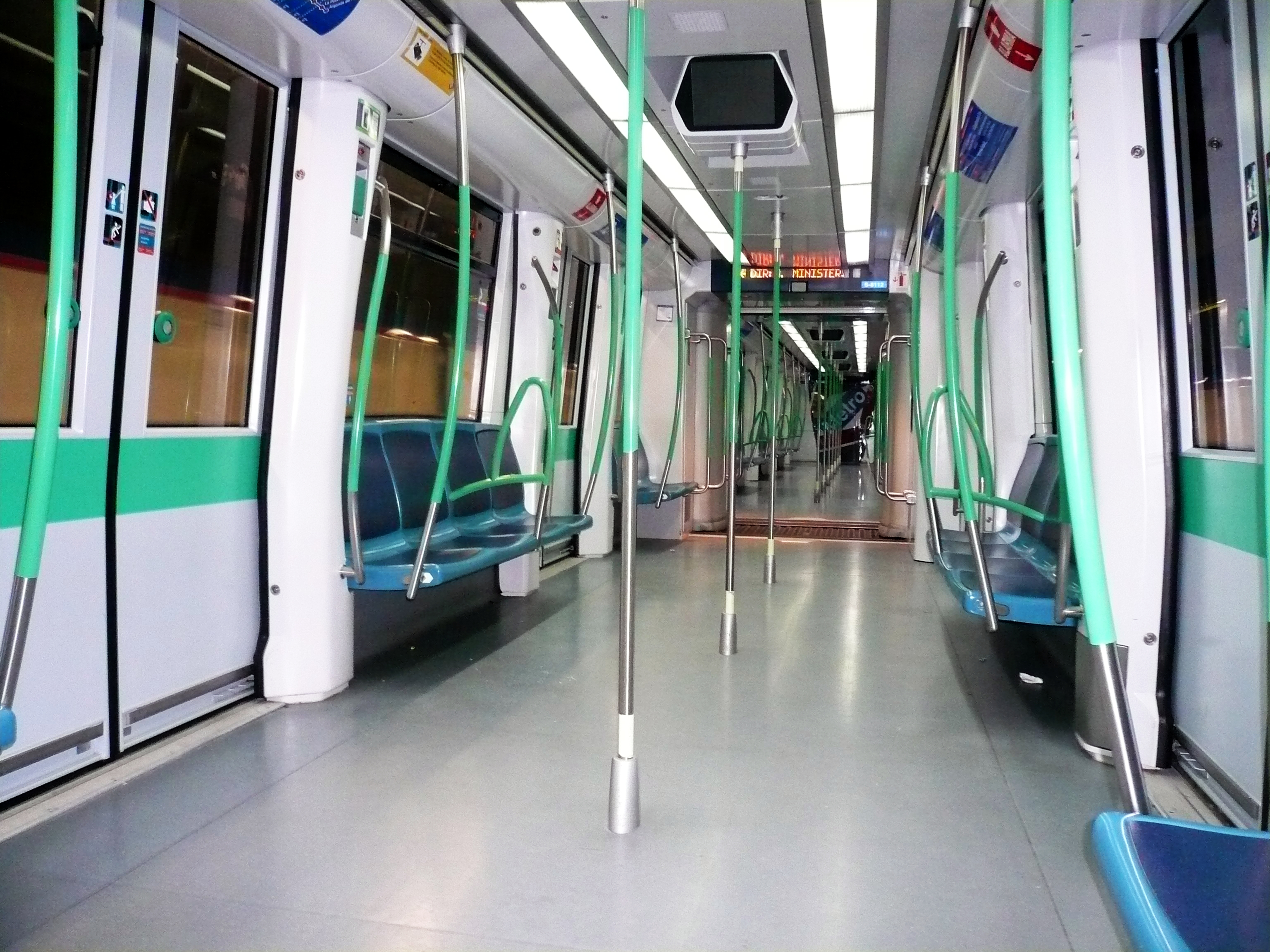 A train of Madrid's metro line 8